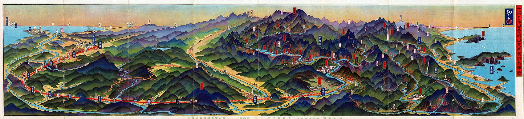 Map of the Kumgangsan Electric Railway by Yoshida Hatsusabu, issued by Kumgangsan Electric Railway during the Korea Great Exposition held in Gyeongseong in 1929.